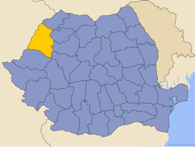 Location of Bihor County in Romania.